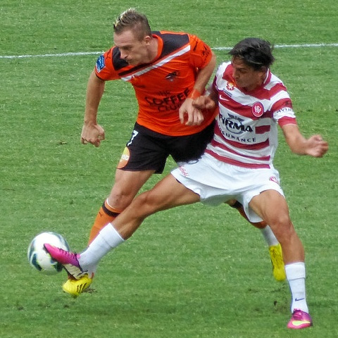 A-League Brisbane Roar v Western Sydney Wanderers 20 January 2013, Besart Berisha (middle) tackled by Jérome Polenz (right)